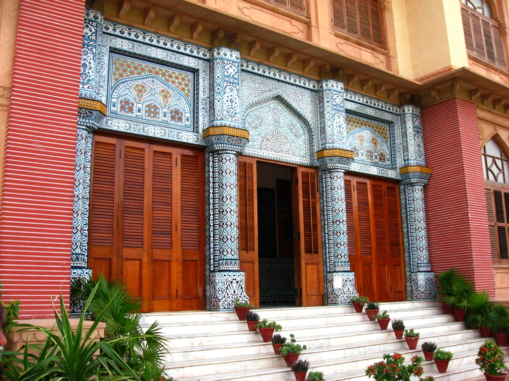 Entrance of Mohatta Palace, Karachi.